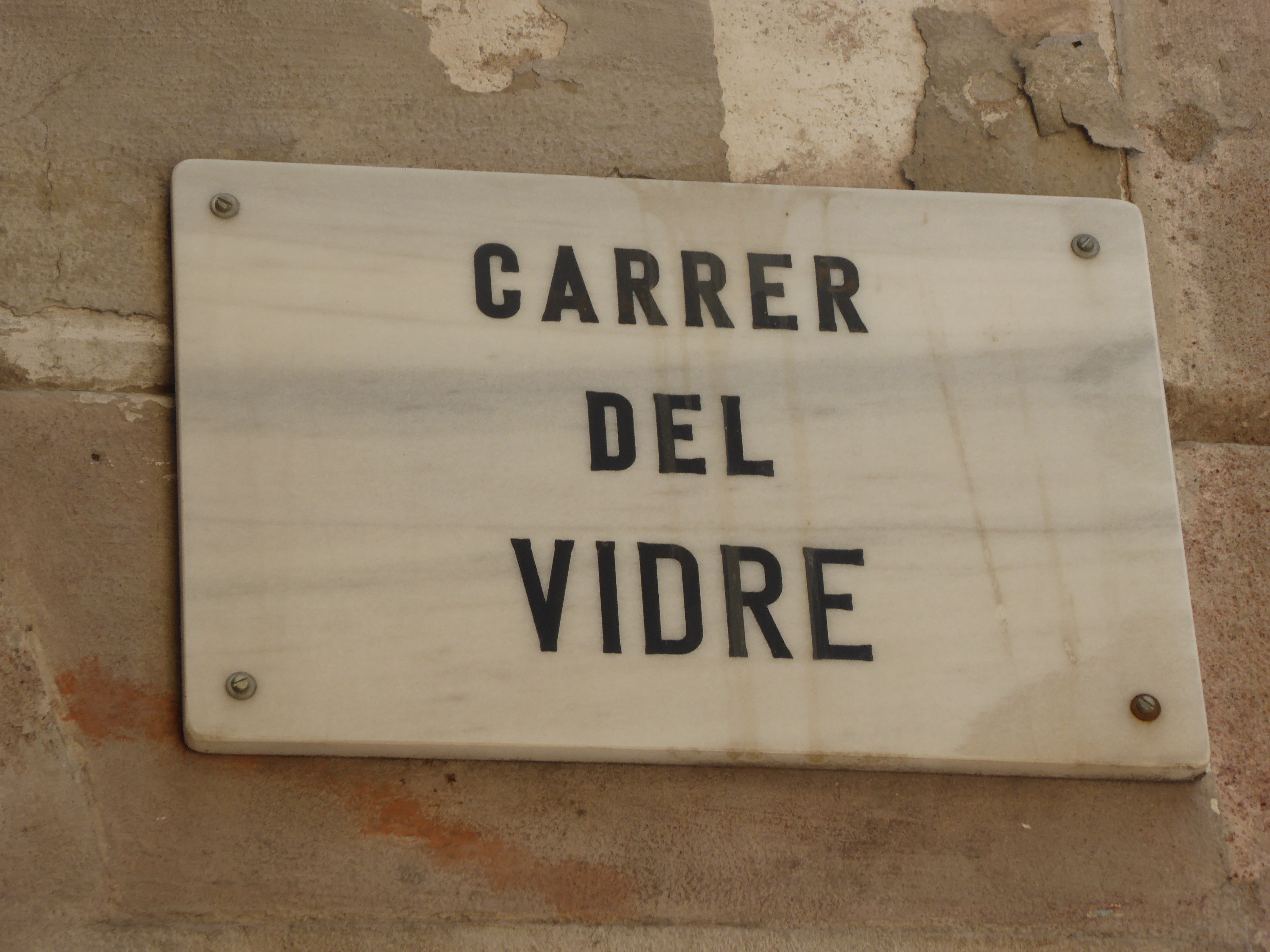 Sign on Carrer del Vidre, El Gòtic, Ciutat Vella, Barcelona, Catalonia, July 2014